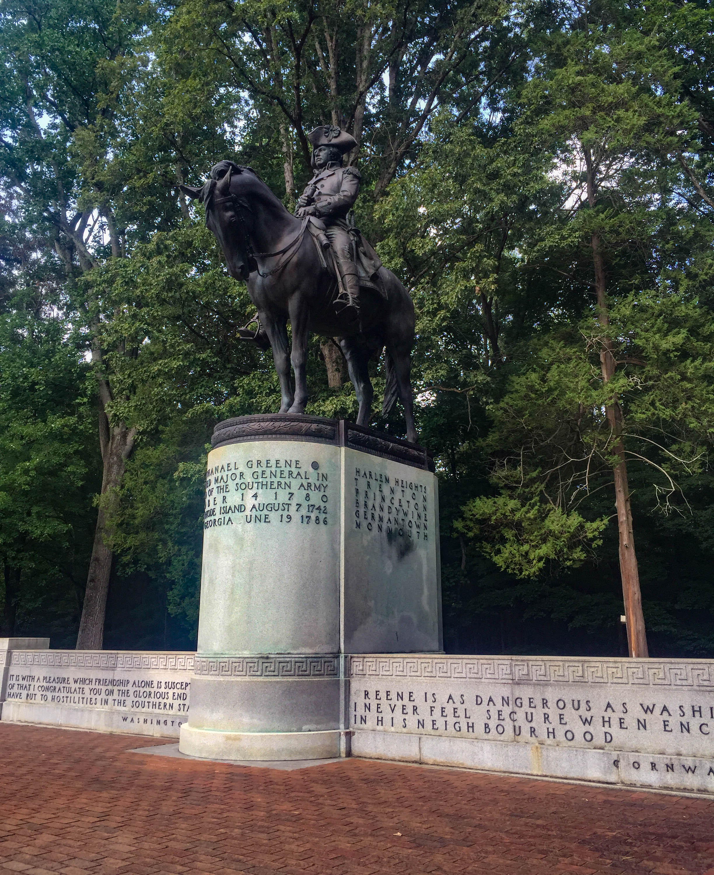 Equestrian Nathanael Greene statue Nathanael Greene statue Keywords: Guilford Courthouse National Military Park; Guilford Courthouse; GUCO; North Carolina; Revolutionary War; Battle of Guilford Courthouse; Nathanael Greene; american military